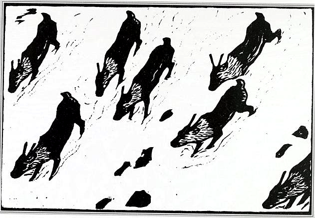 Reindeer calves. Woodcut by sami artist John Savio (1902-1938)